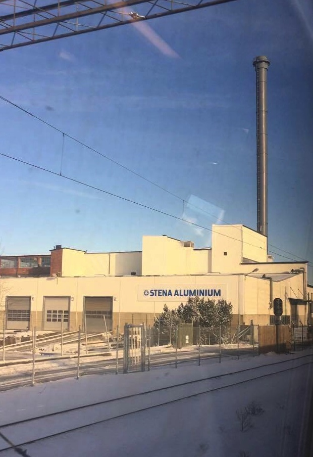 Stena Aluminium AB, Älmhult Sweden